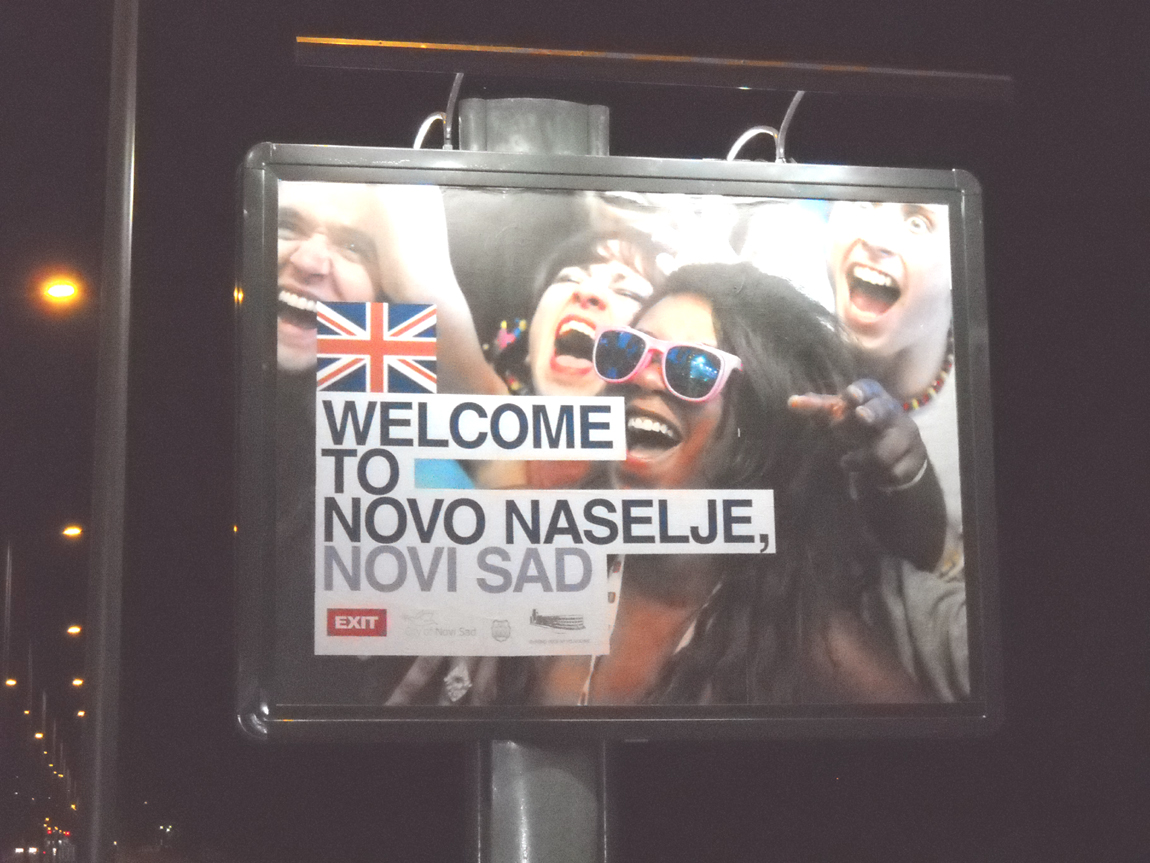 Welcome to Novo Naselje - billboard in English language in Novo Naselje (Bistrica) neighborhood of Novi Sad, posted during EXIT 2010 music festival.